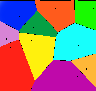 Voronoi diagram. The Voronoi diagram of 10 point sites in the plane under the euclidean distance